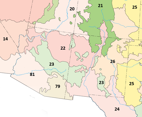 Level III ecoregions in Arizona and New Mexico, as defined by the U.S. Environmental Protections Agency